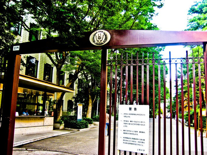 Main Gate of Sophia University